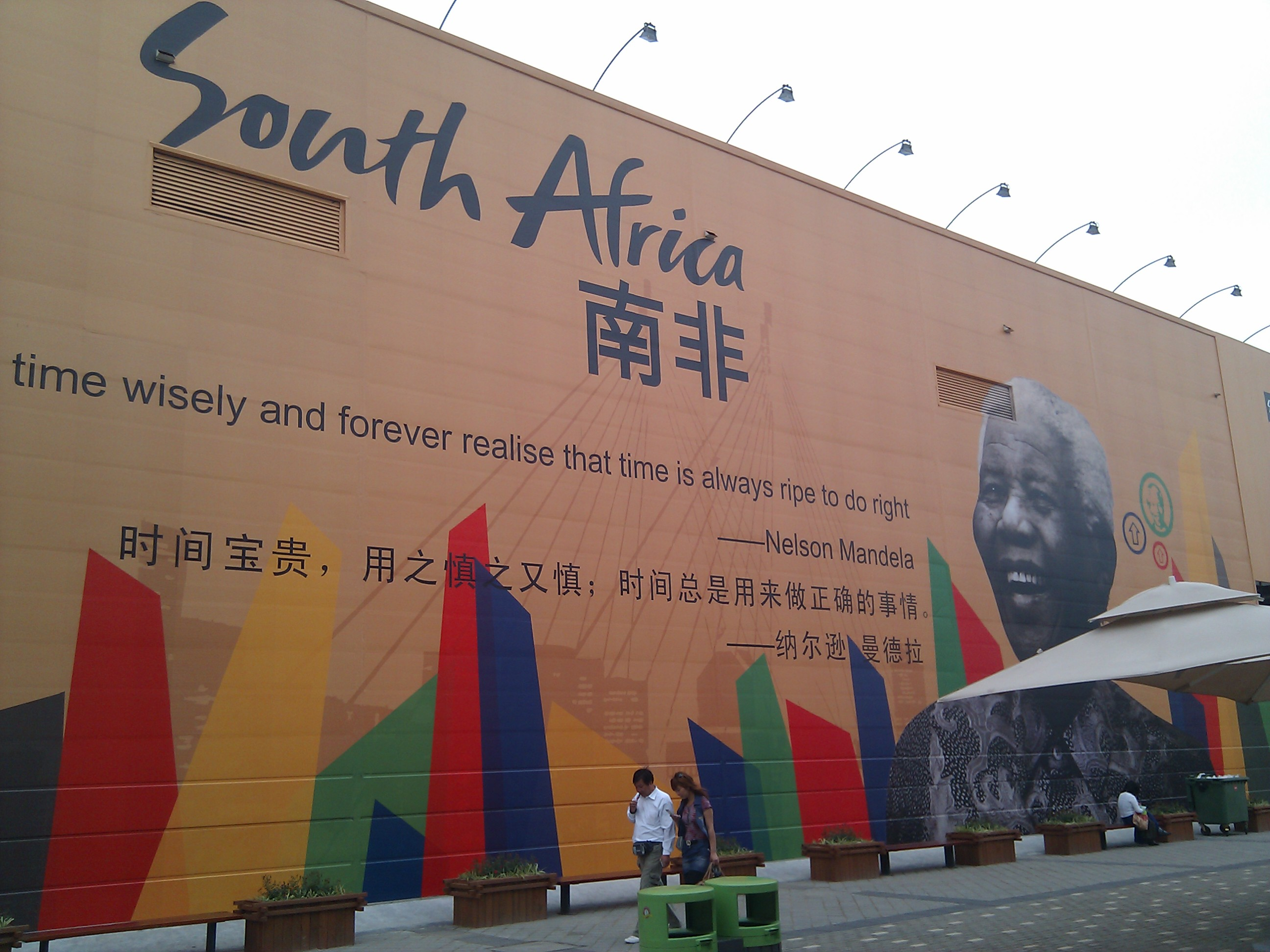 South Africa Pavilion of Expo 2010